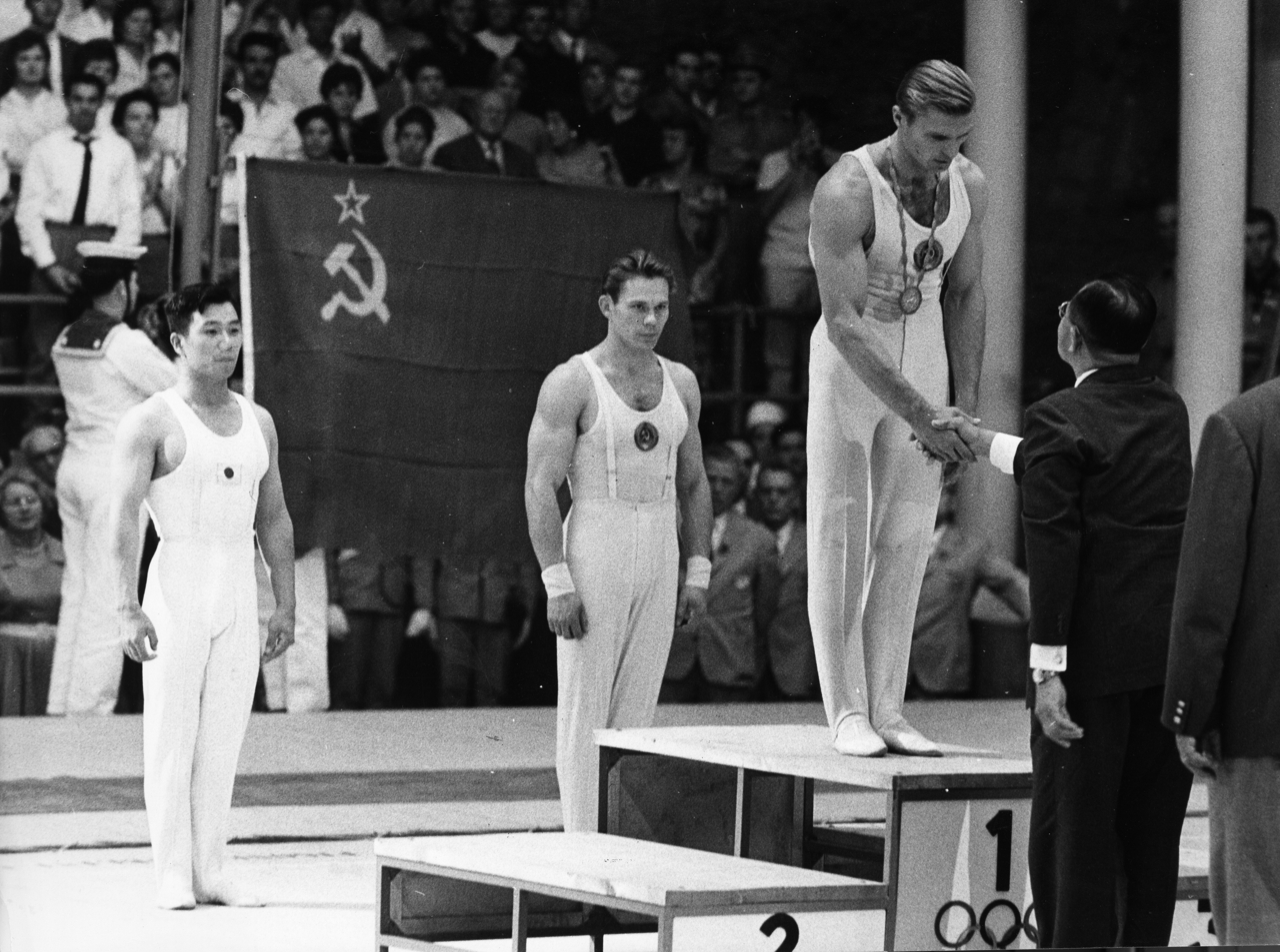 Left-right:Takashi Ono, Yuri Titov, Boris Shakhlin at the 1960 Olympics